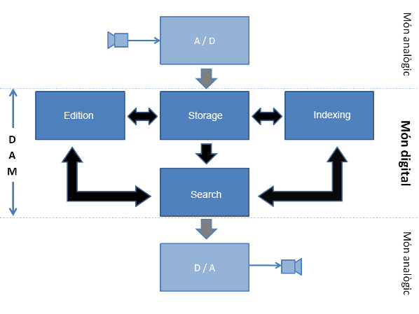 bvfgff